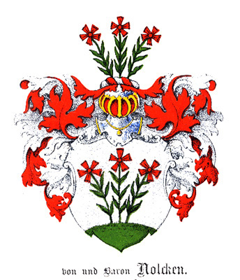 Coat of arms of Nolken family.